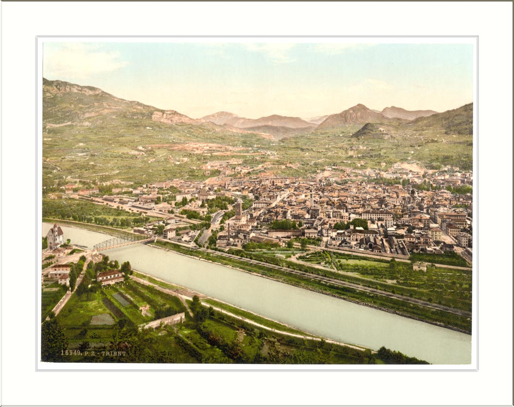 Trient general view from S. W. Tyrol Austro-Hungary